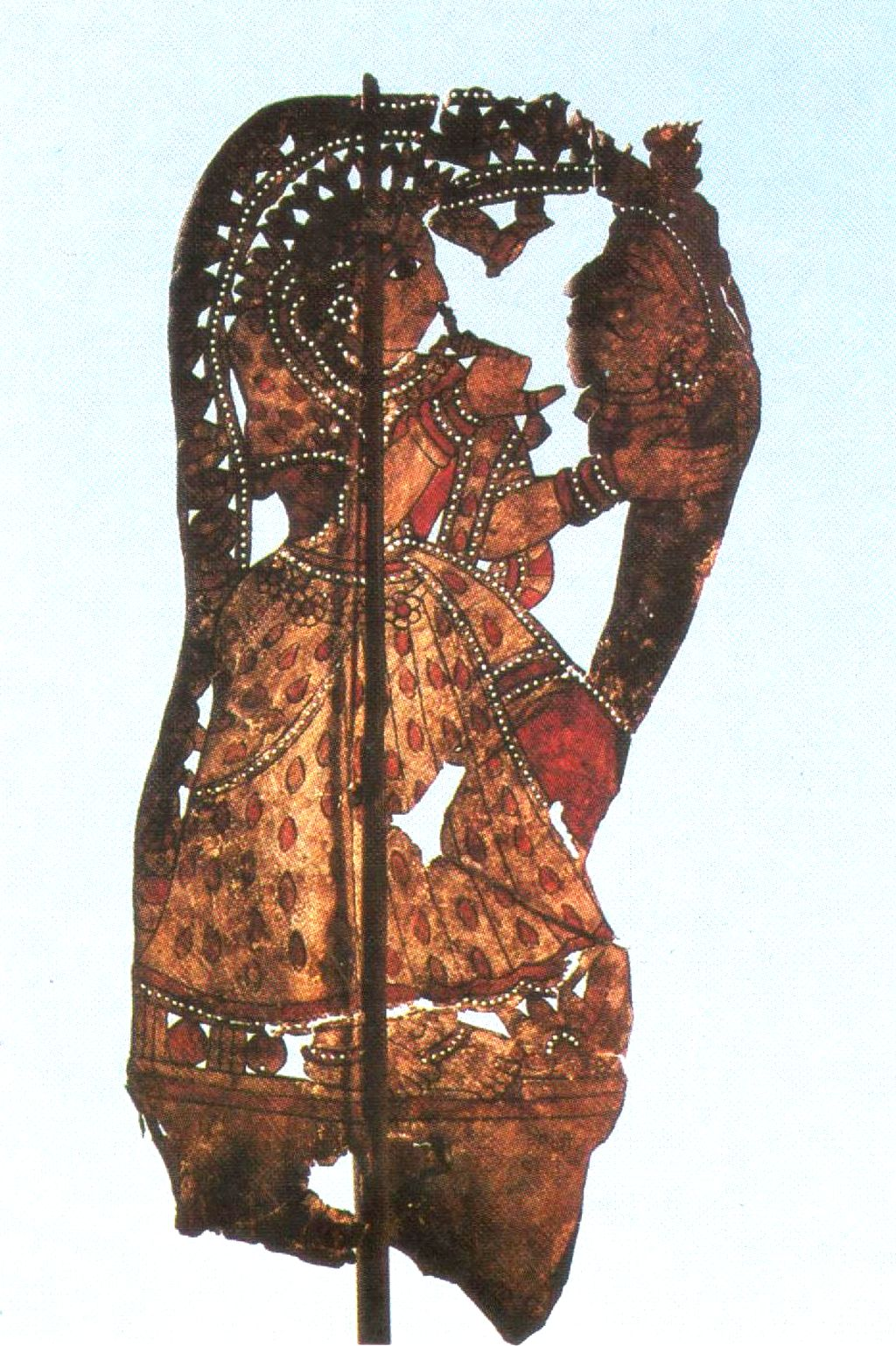 Sulochana, shadow puppet from Pinguli village, Sawantwadi, Maharashtra